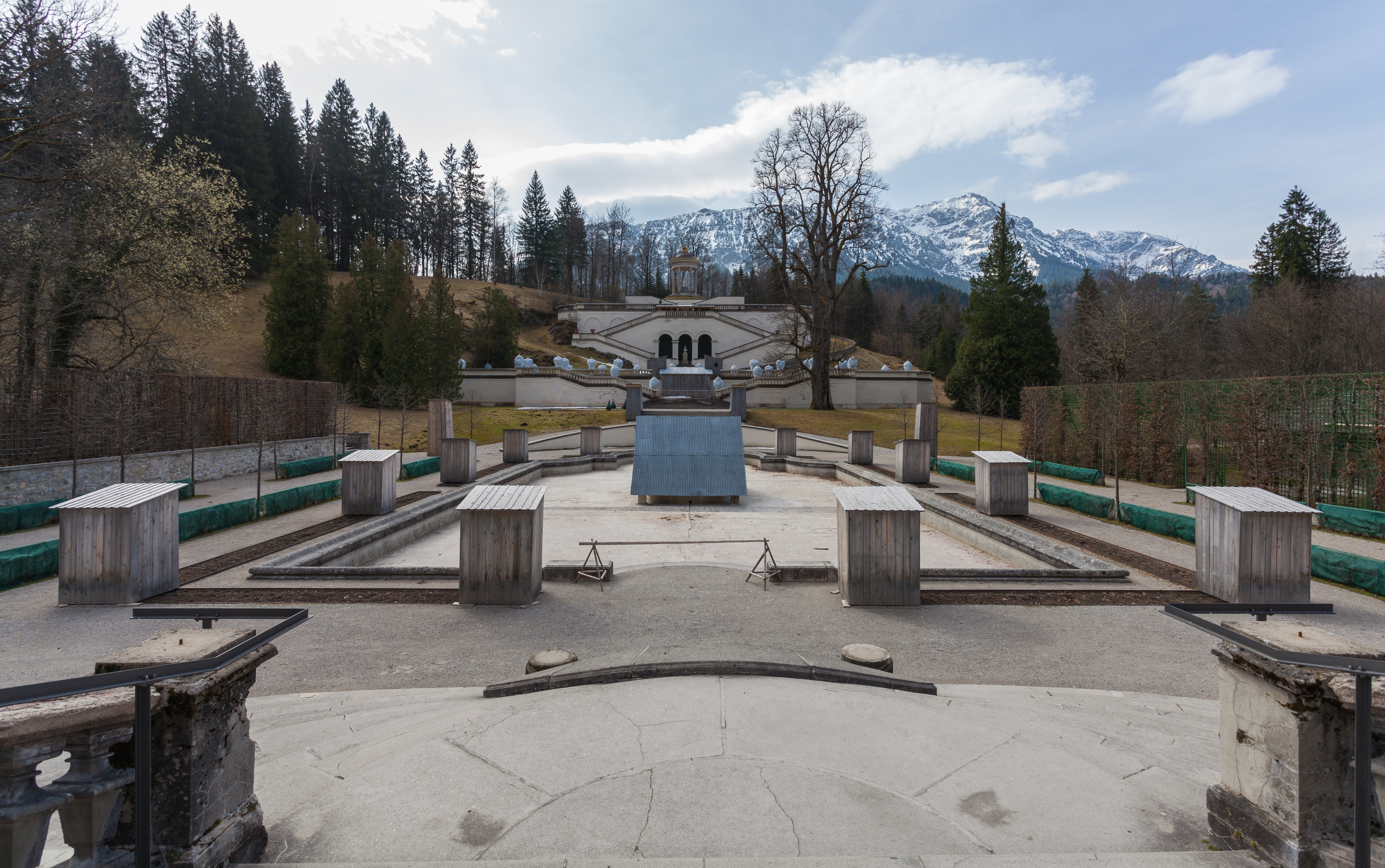 Southern Terraces of the Linderhof Palace, Bavaria, Germany